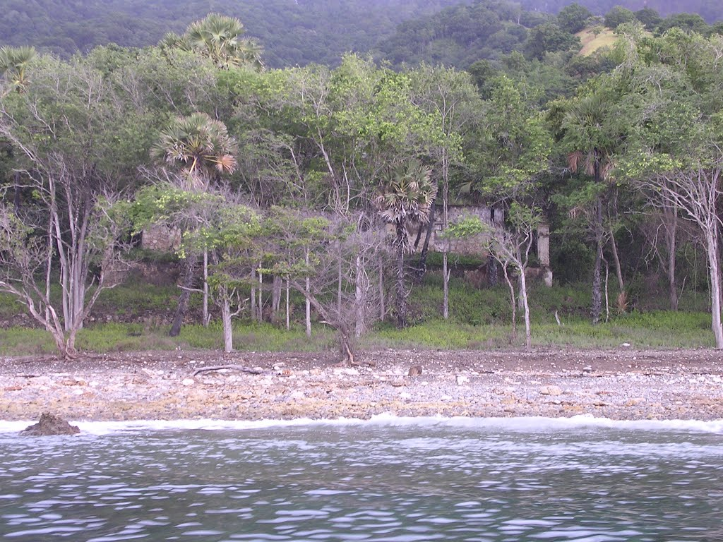 Portuguese era ruins, at Loiquero about 8 km east of Com, May 2004, a former sub district capital